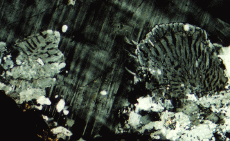 Wartlike myrmekite with intermediate-sized quartz vermicules (black) in plagioclase (gray) surrounded by K-feldspar (gray, black, cross-hatch pattern). Tiny quartz ovals (white); magnetite (solid black); biotite (brown). From megacrystal quartz monzonite near Twentynine Palms, California, USA. Courtesy Dr. Lorence G. Collins